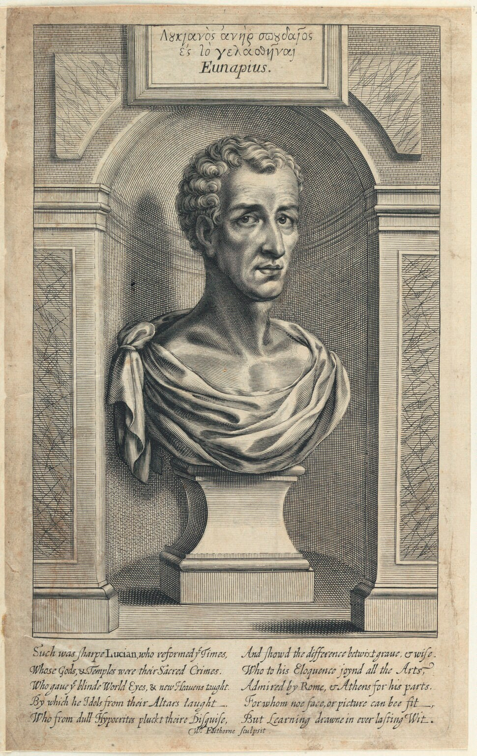 Lucian, the satirist. Engraving by William Faithorne (1616/1691). Washington D.C., The Library of Congress, Prints and Photographs Division, LC-USZ6-71.